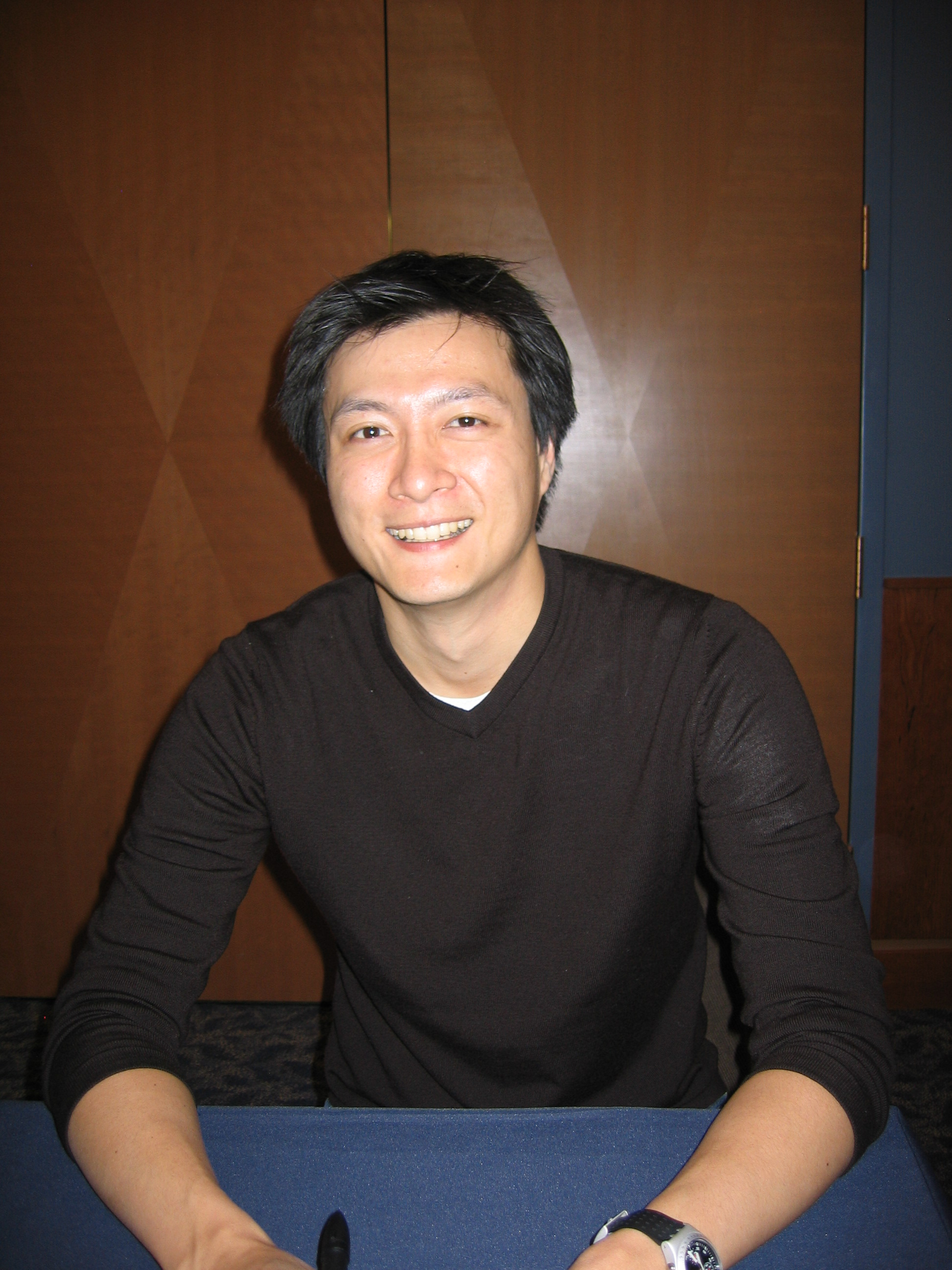 Jorge Cham, creator of PhDComics, after his talk at University of Illinois at Urbana-Champaign. Photo by Ragib Hasan], who always finds similarities between PhDcomics and his life!!